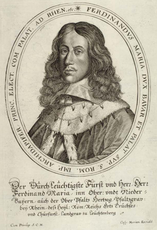 Ferdinand Maria, Duke of Bavaria and of the Upper Palatinate, Arch-steward of the Holy Roman Empire, Prince-elector, Count Palatine of the Rhine. The Most Serene Prince and Lord, Lord Ferdinand Maria, Duke in Upper and Lower Bavaria and of the Upper Palatinate, Count Palatine of the Rhine, Arch-steward and Elector of the Holy Roman Empire, Landgrave of Leuchtenberg.